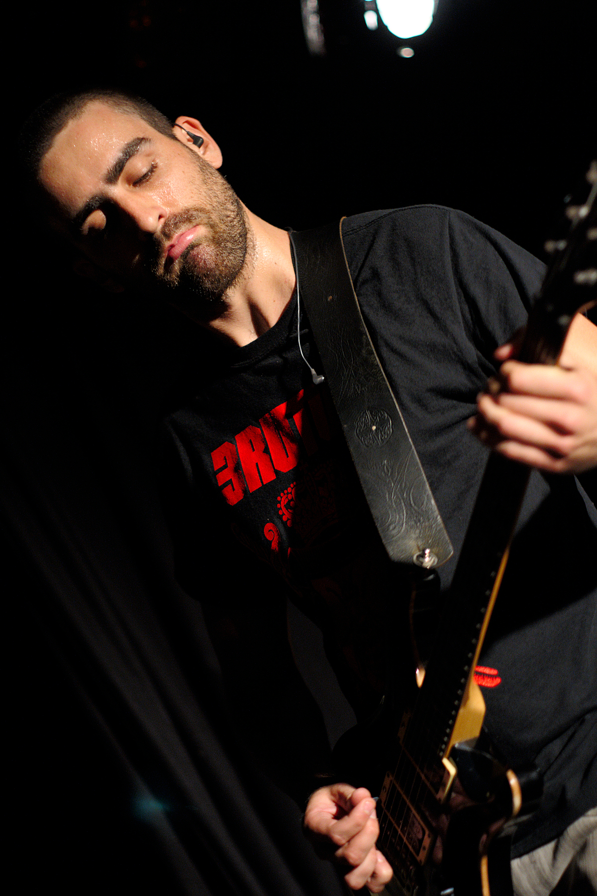 Andrew “Drew” Goddard, guitarist of Australian rock band Karnivool, during a concert at Stuttgart club Universum on 2010-12-11. View in my concert gallery.